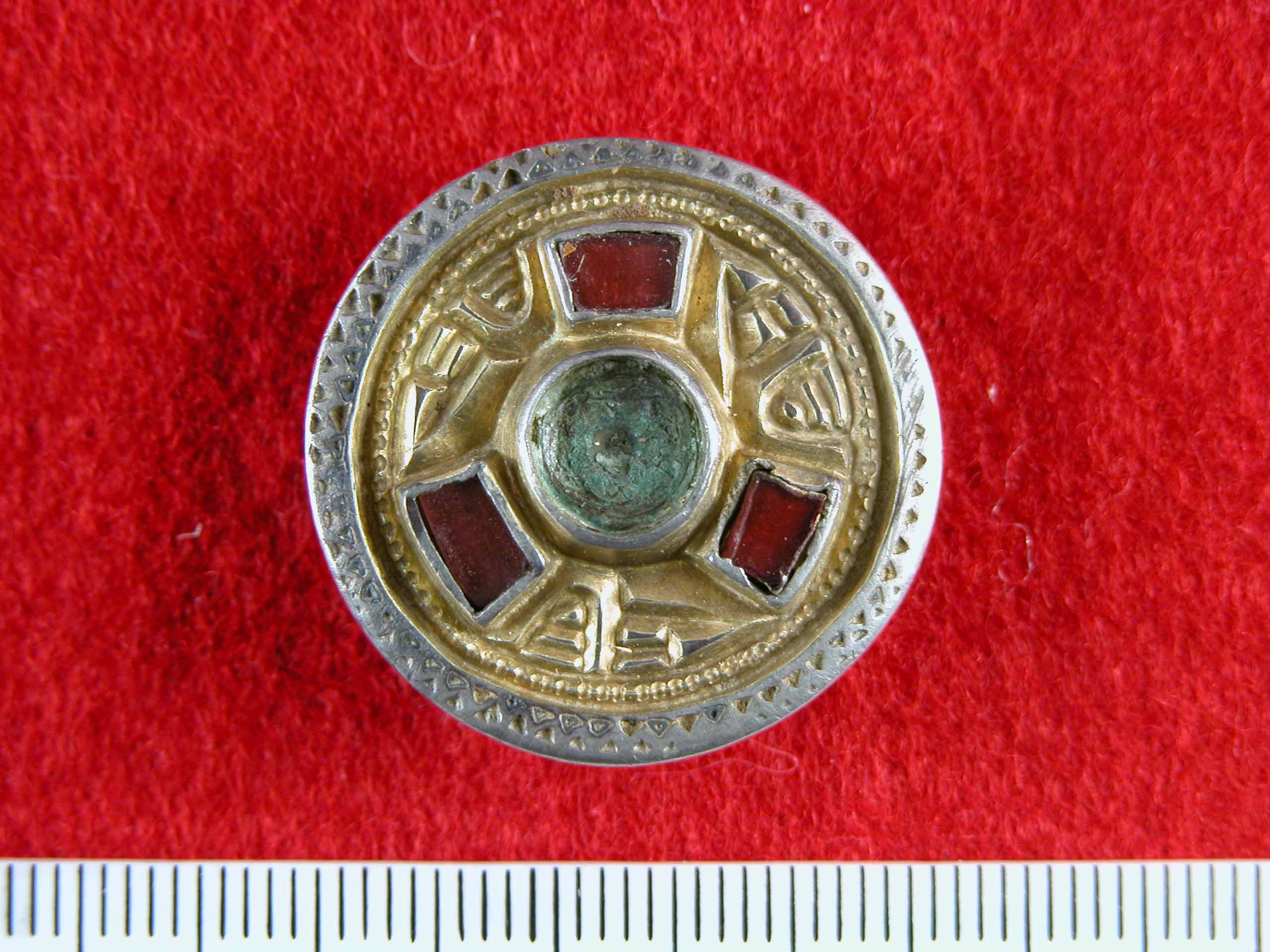 A gilded silver Kentish Disc brooch of Avent's Class 2.1. The brooch is small with a narrow border of impressed triangles placed apex to base to form a pattern of zig-zag impressions which are inlaid with niello. Lying inside and against the border is a finely beaded gilt frame and within this the field is divided into gilded zones by three sub-rectangular cells lying against a circular central cell. The three cells are filled with plate garnets set over waffle patterned gold foil, the central cell is empty. Each of the three gilded fields is entirely filled with a single, highly stylised Style I zoomorph consisting of a head and back leg only. The back of the brooch is plain with the catchplate and broken pin fastening still soldered in position.